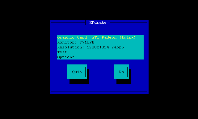 Example of a modern TUI, this one is used in Mandriva Linux in an application called 'XFdrake' to configure the graphical system.